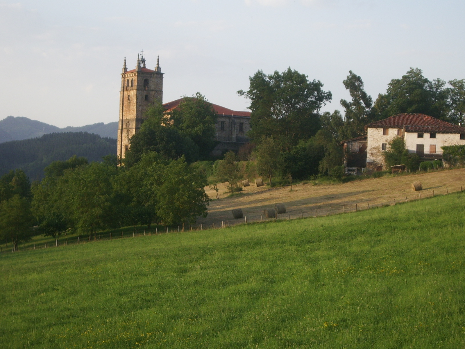 Ama Jasokundea church (Segura, Guipuscoa, Basque Country)